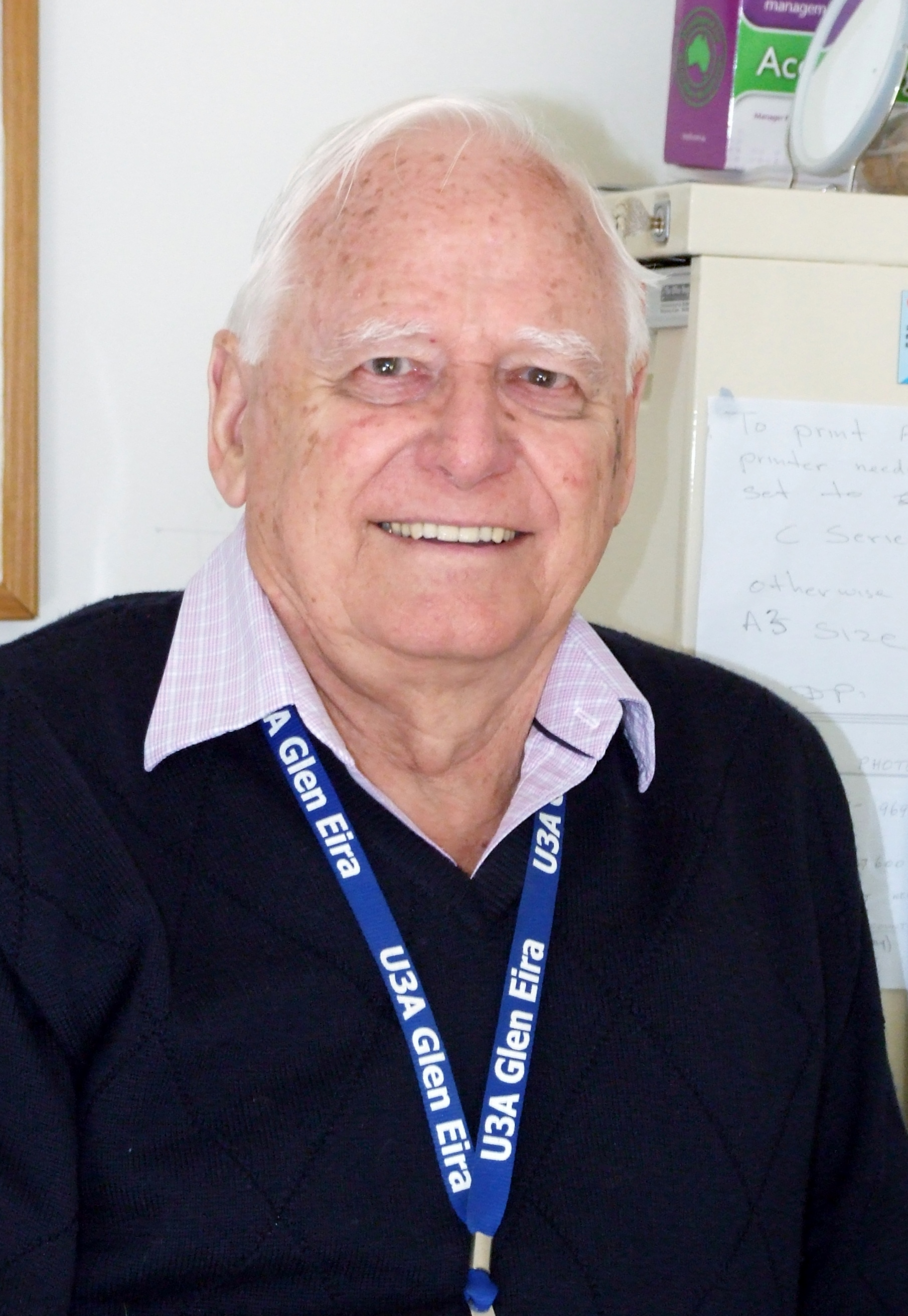 Ian Cathie, President of Glen Eira U3A, Melbourne, Australia